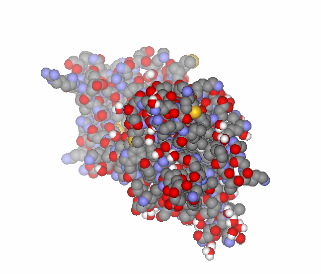 Image created using Accelrys Software. BDNF.pdb was provided by the Protein Data Bank. I release this picture freely to the public.